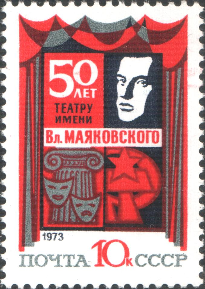 USSR stamp